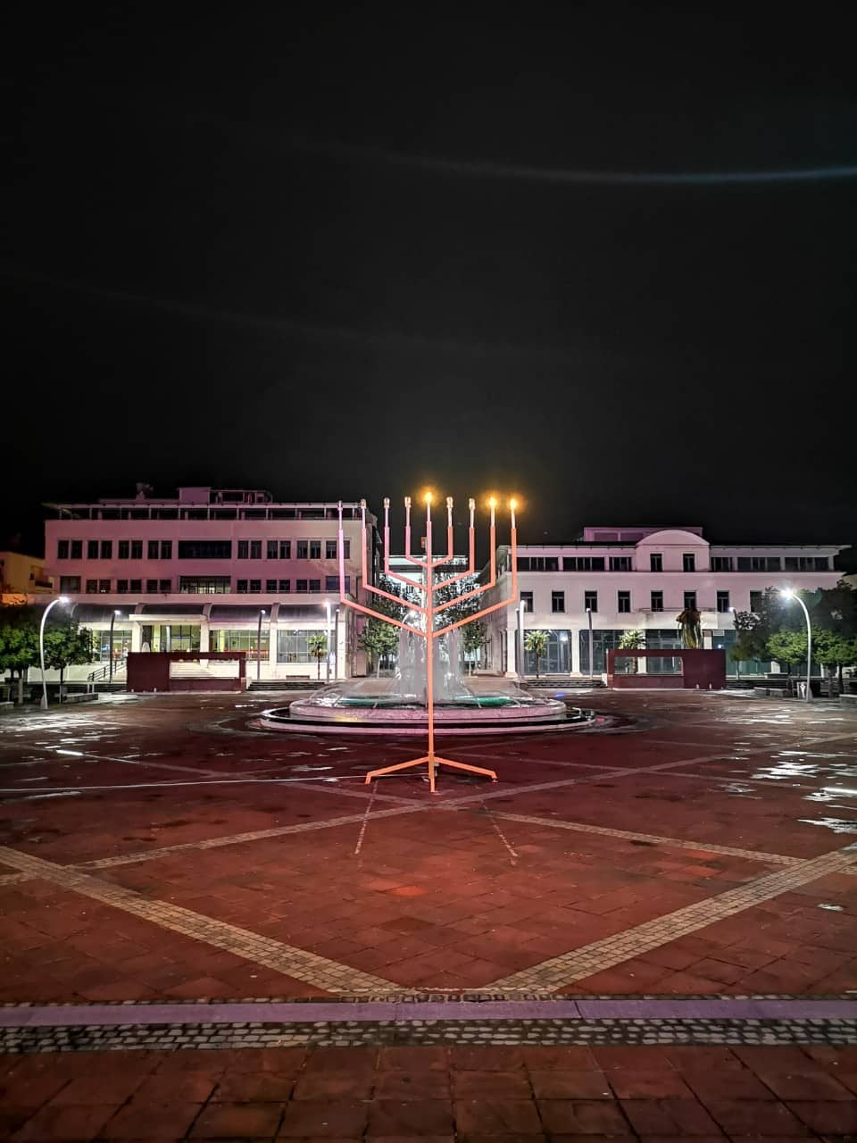 Podgorica